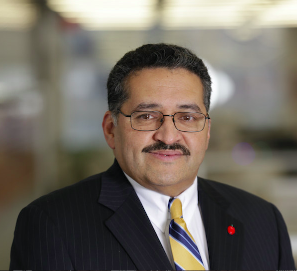 Michael D. Nieves screenshot